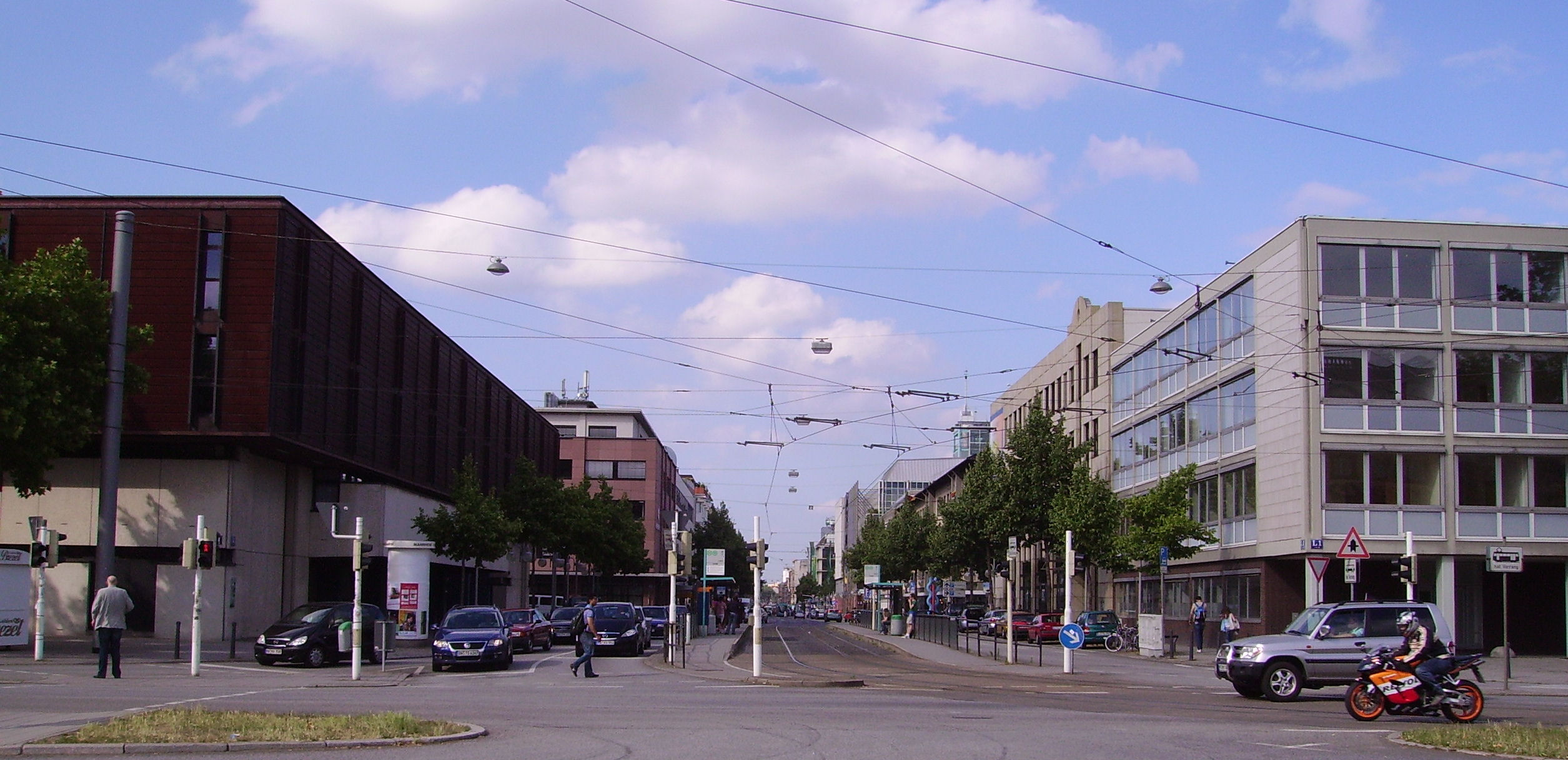 court of justice of Mannheim, Germany